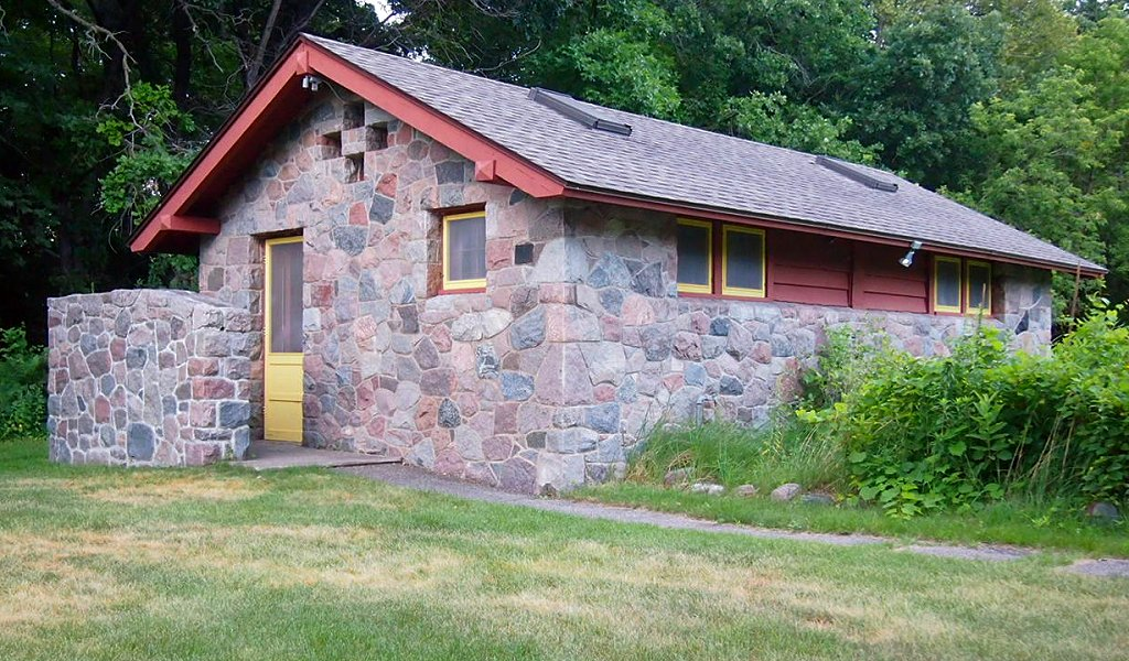 Storm shelter built by the Works Progress Administration, Buffalo River State Park, Minnesota, USA